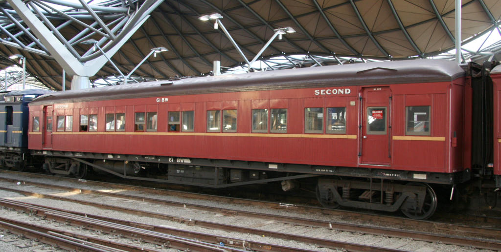 Semi-elliptical roofed Victorian Railways W type carriage 61BW as preserved by Steamrail Victoria